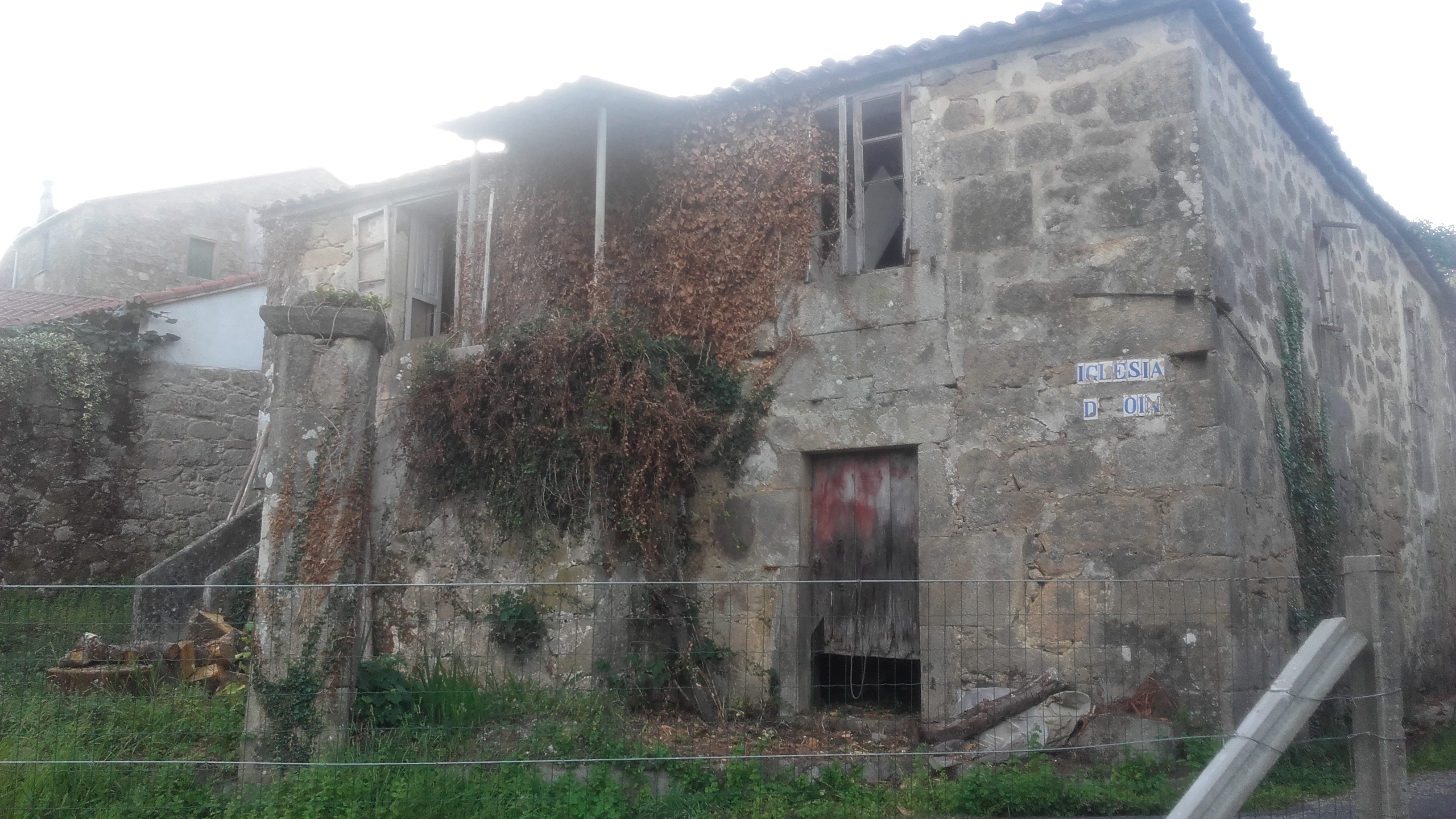 Patrimonio de Rois